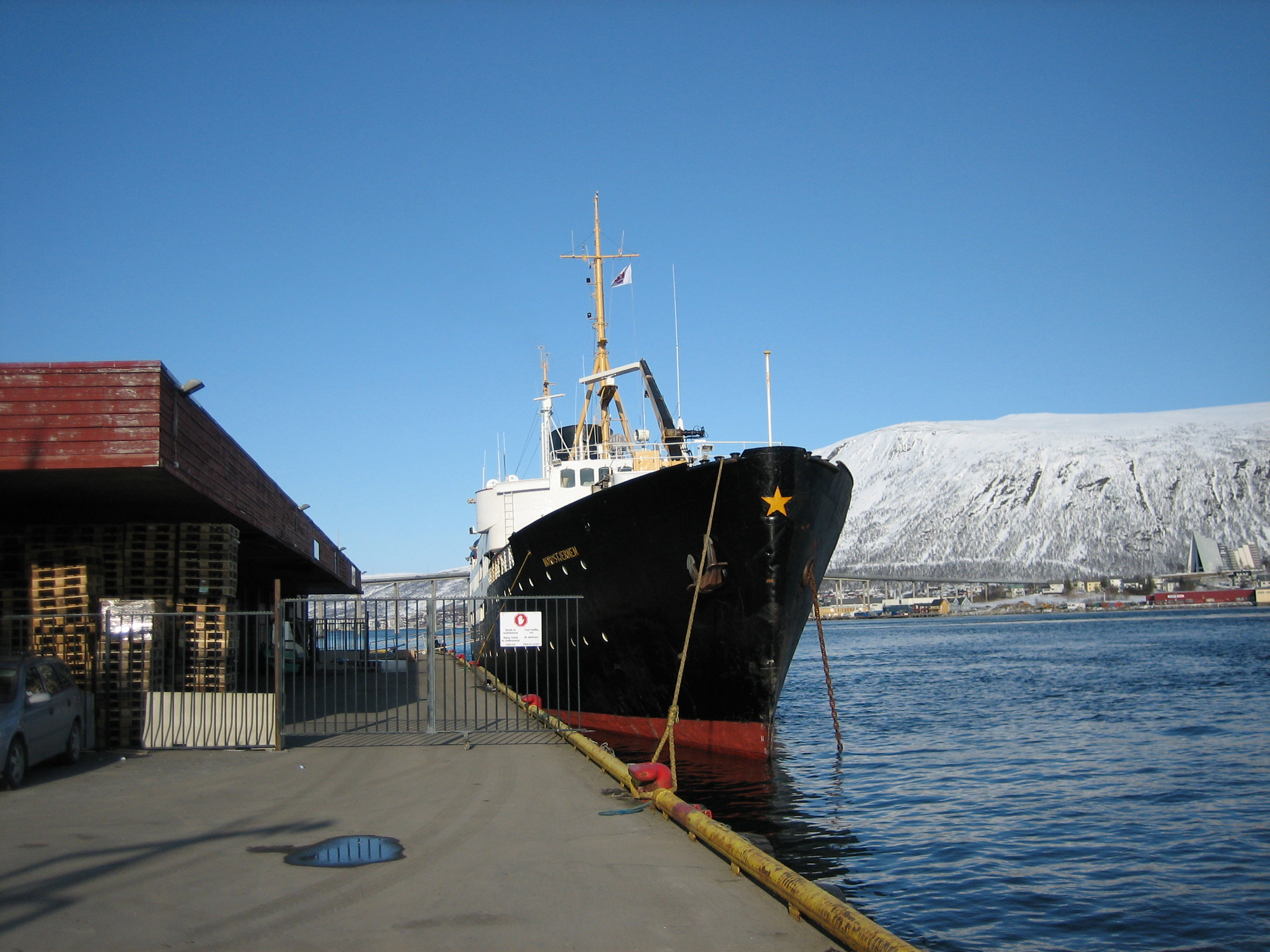 MS Nordstjernen docked in the North Norwegian port of Tromsø.